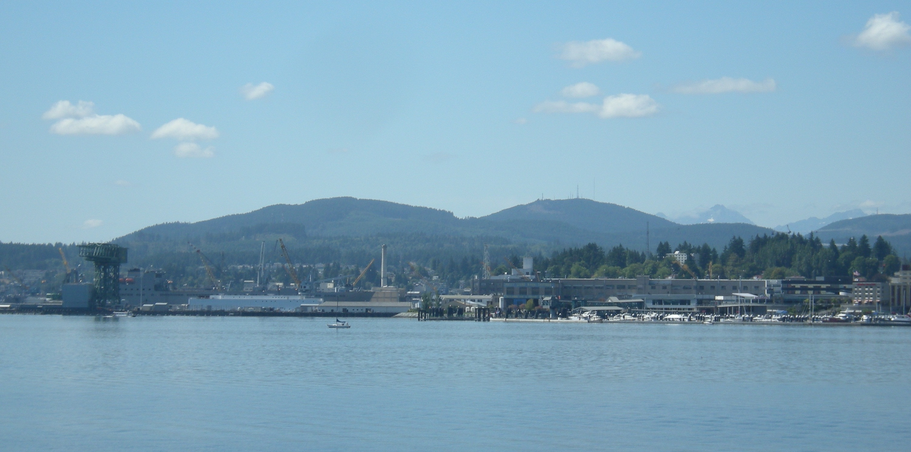 Puget Sound Naval Shipyard, Bremerton, Washington, seen from the water.